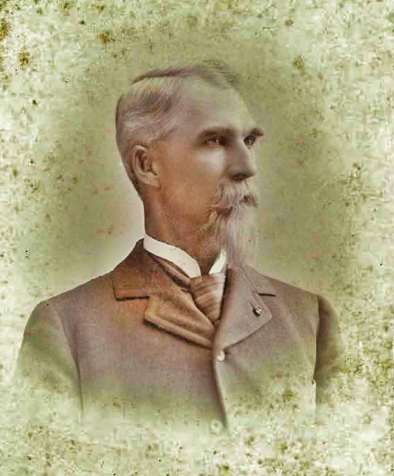 Capt. Edward Lyon Buchwalter (June 1, 1841–1933)(Portrait shot) was a Union Captain in the American Civil War, farmer, corporate figure and banker. He served in the 114th Ohio Infantry as lieutenant, later Captain of the 53rd Mississippi Colored Volunteers Infantry under General Sherman and General Grant. He was President of Superior Drill Company, President of American Seeding Machine Company and first President of The Citizens National Bank of Springfield, Ohio. Married to Marilla Andrews. This copy was made from my original photograph and contributed here by J.Guy George, great, great grandnephew of said subject. Photo Circa 1890's. J.Guy George/April 14, 2012.